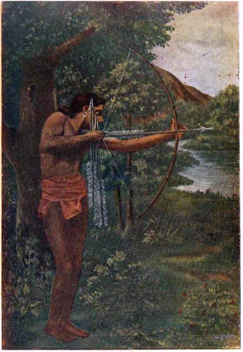 This paint was published in Bharati Telugu Monthly Magazine of March 1932. This paint was drawn by Gundimeda Venkata Subbarao.